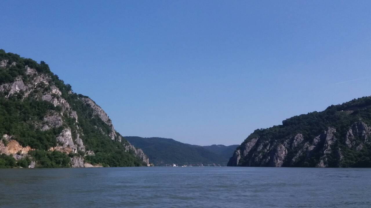 The Djerdap gorge is the longest and the biggest gorge in Europe. Is located at the border Between Serbia and Romania.